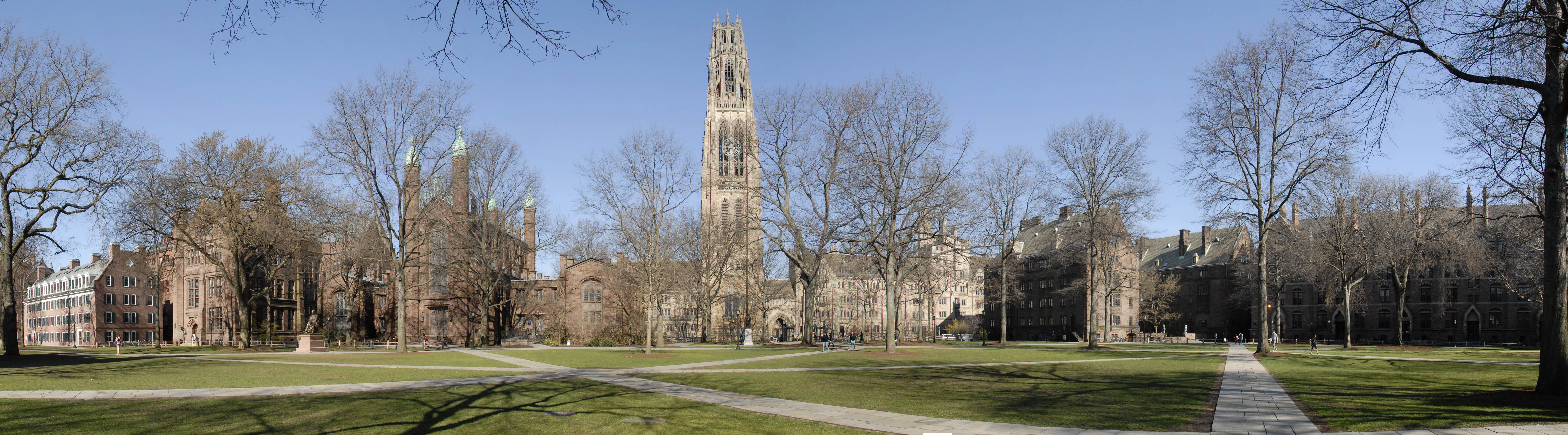 The Old Campus of Yale University; a panorama of 4 photographs combined in Photoshop CS4. April 2009